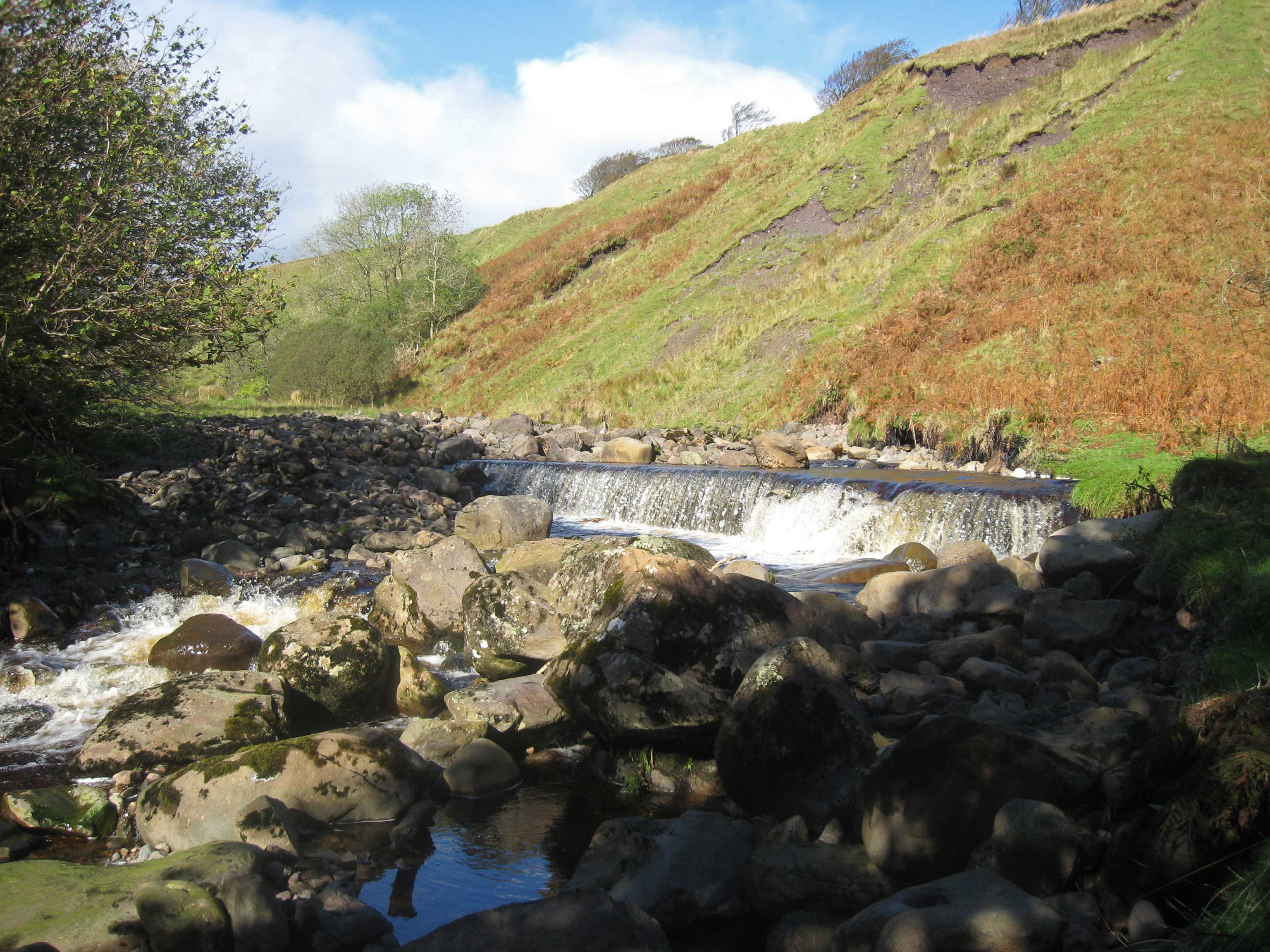 River Garnock looking upstream from the bank below Glengarnock Castle, up the ravine of Glengarnock